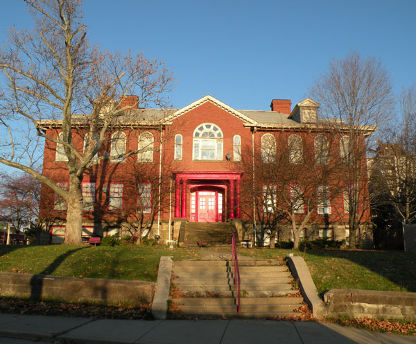 Picture of Longfellow School, located at the corner of Monroe Street and McClure Avenue in Swissvale, Pennsylvania, on November 22, 2009. The school was built in 1902 by Rieger & Courrier (sometimes listed as Rieger & Currier), and George Hogg, and is listed on the National Register of Historic Places.